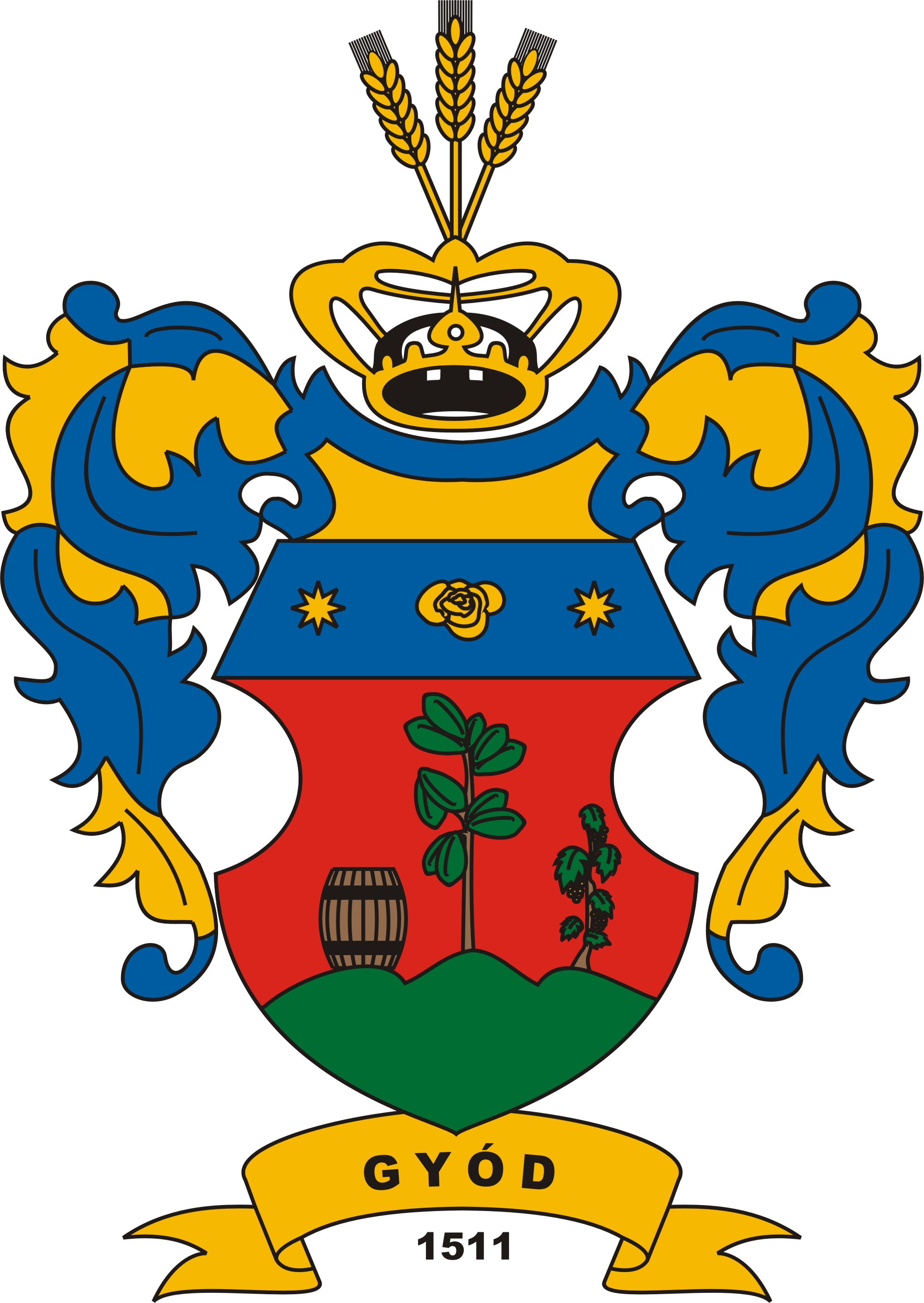 Coat of arms of Gyód, Hungary